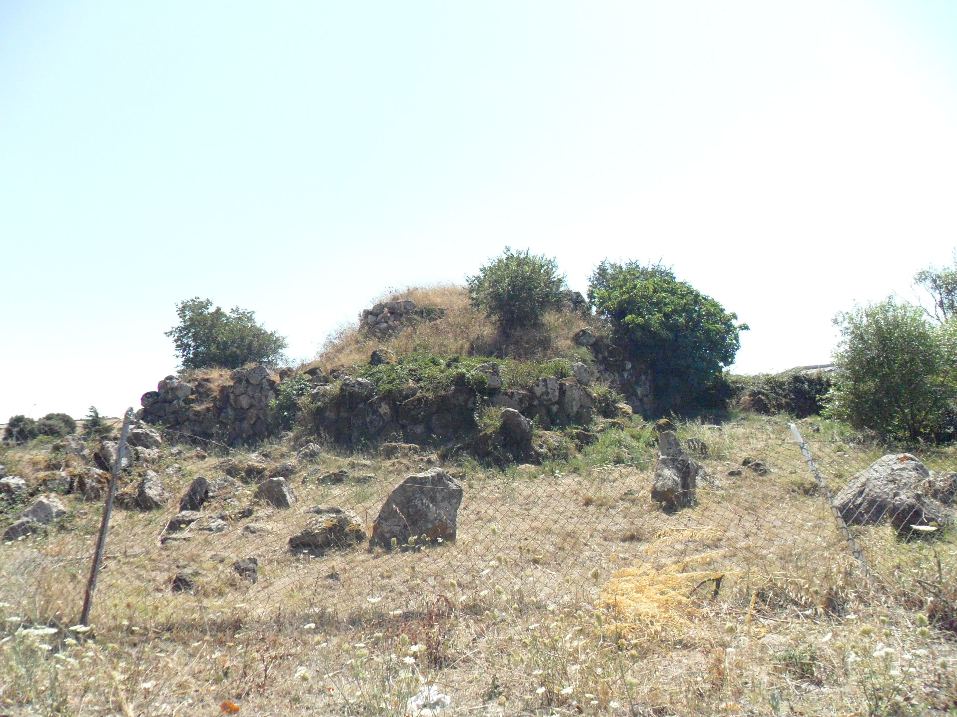 Nuraghe Cae in Pozzomaggiore (SS), Sardinia - Italy